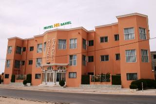 ndb hotel sahel